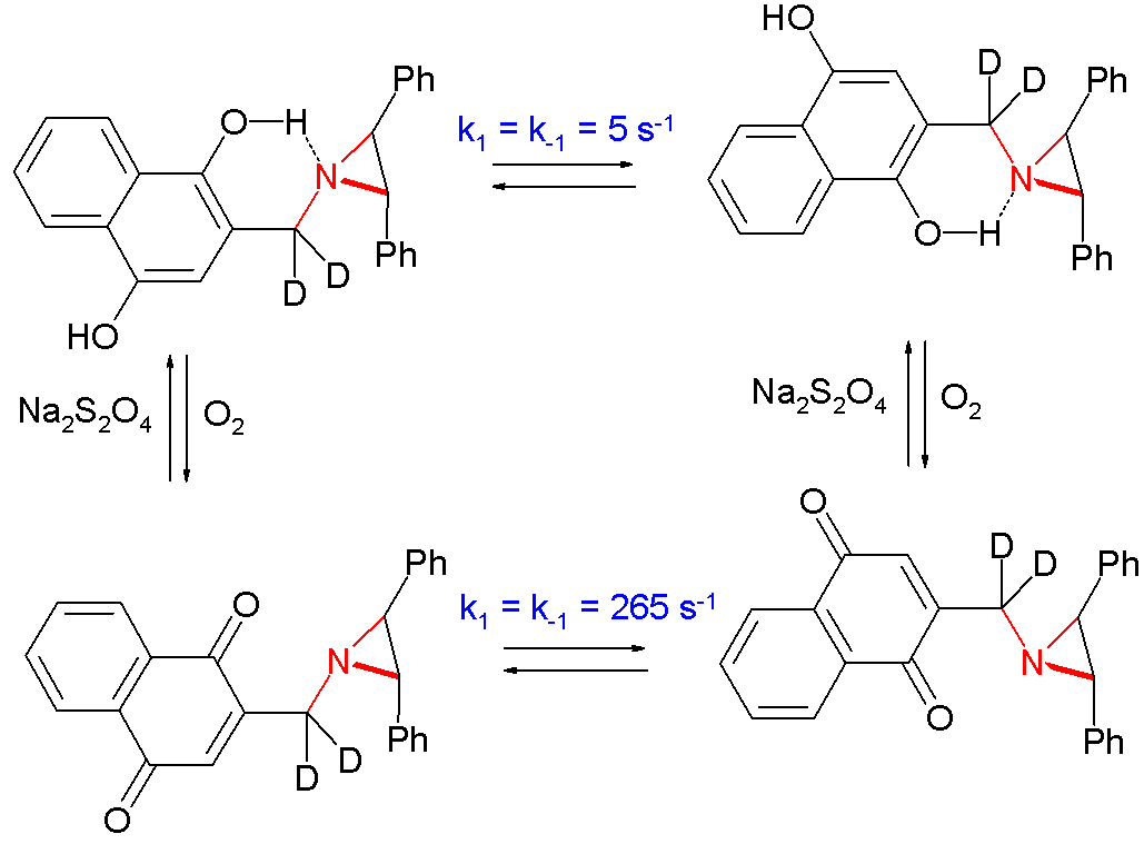 Nitrogen inversion Davies 2006